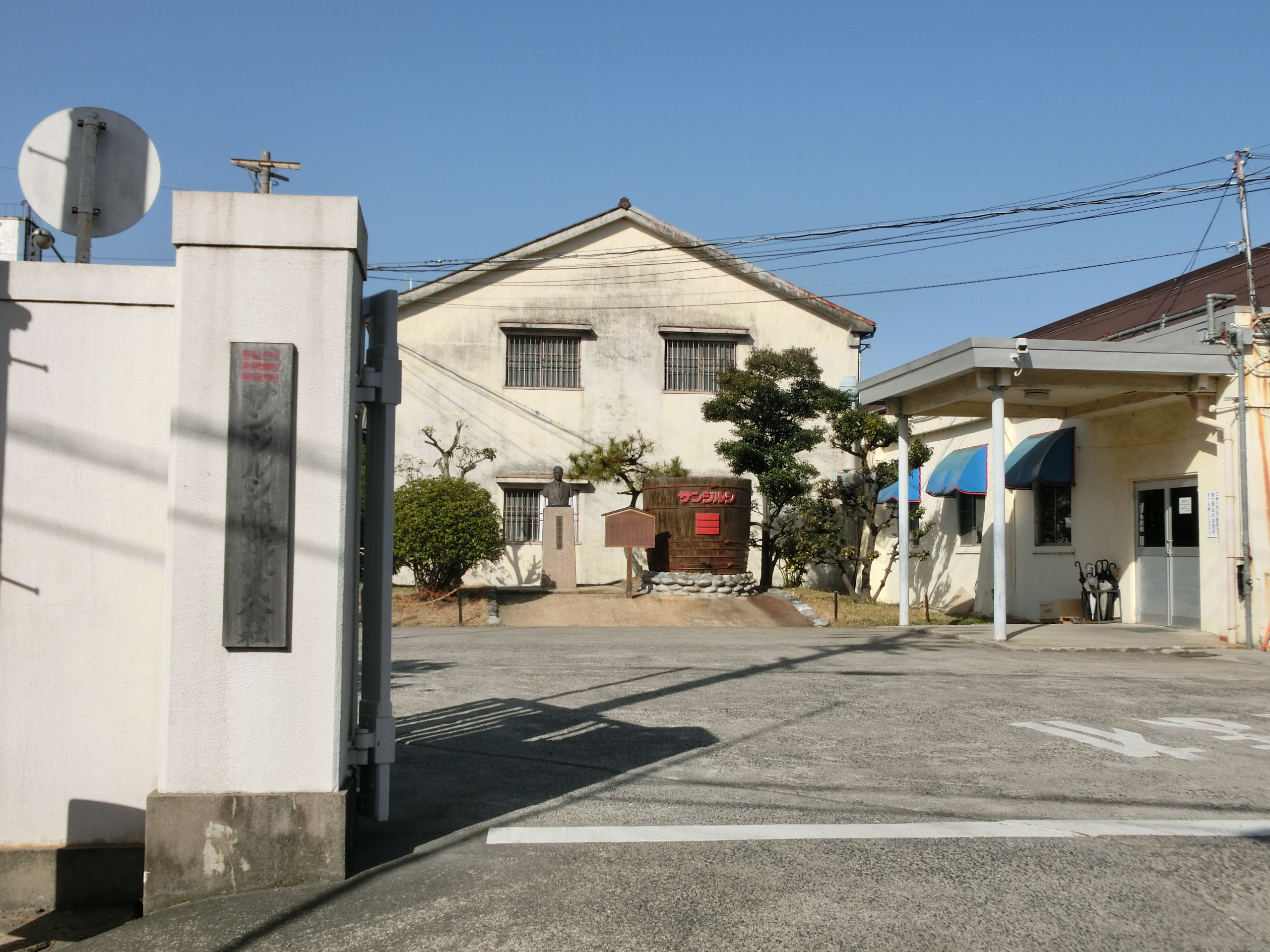 San-Jirushi Head Office